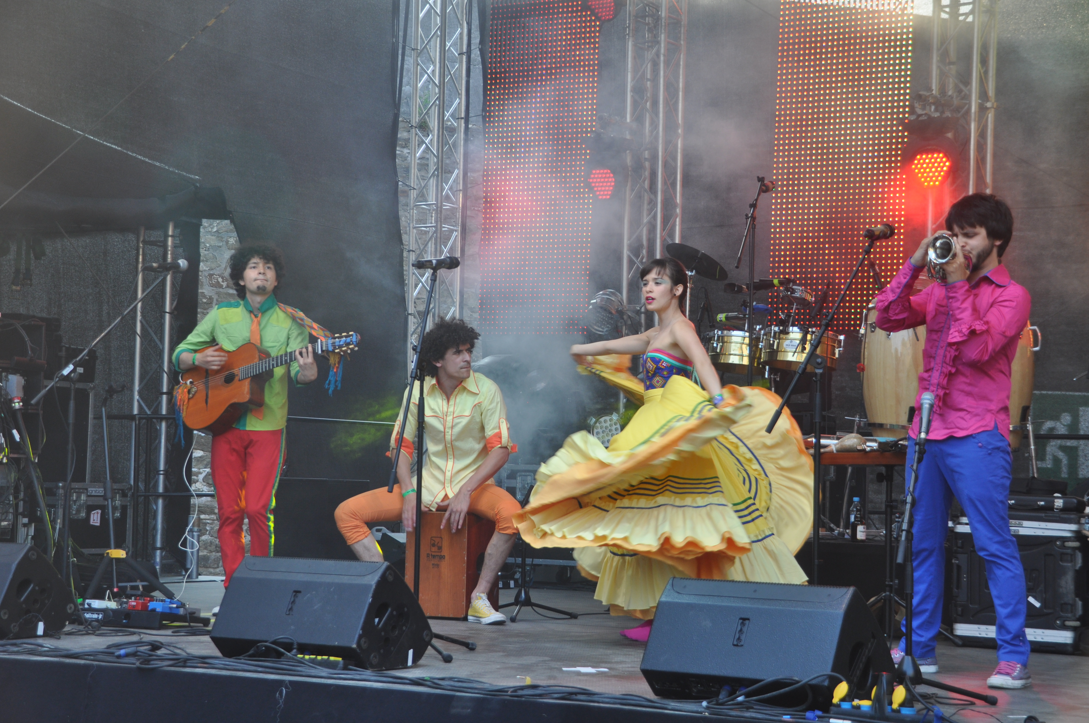 Monsieur Periné (Columbia), appearence at the 11th world music festival "Horizonte" 2013 at the fortress Ehrenbreitstein, Koblenz, Germany